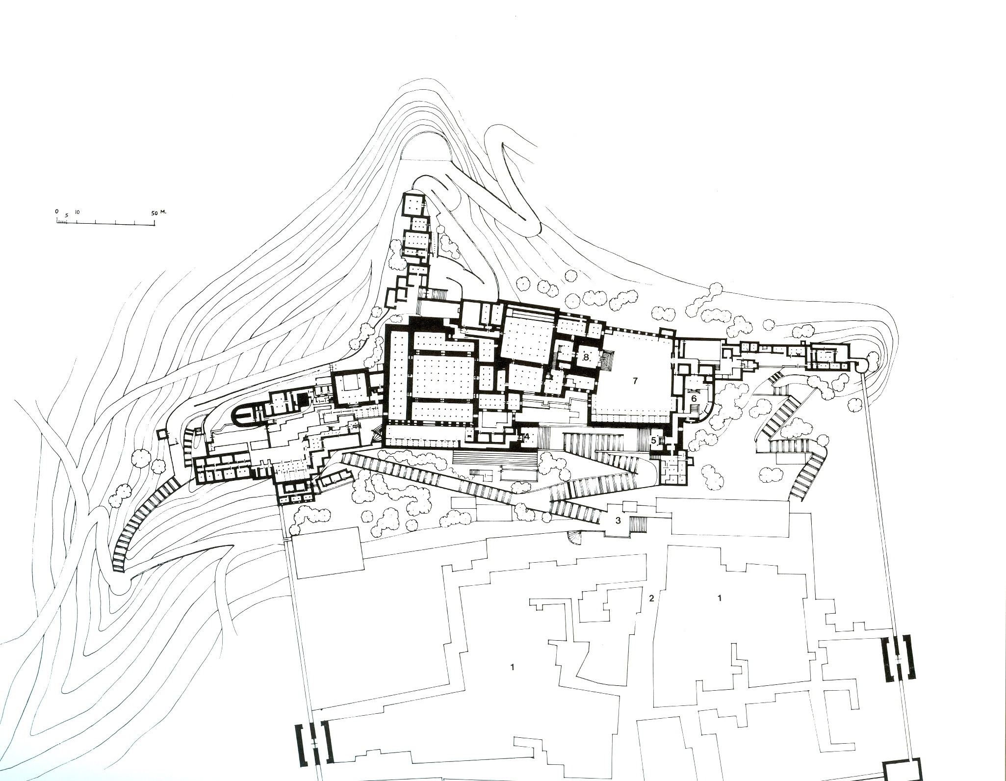 Potala Palace plan. 17th century. 1. Lhasa City 2.Widing Street 3. High Platform 4. West Gate 5. East Gate 6. Small Courtyard 7. Big Courtyard 8. White Palace